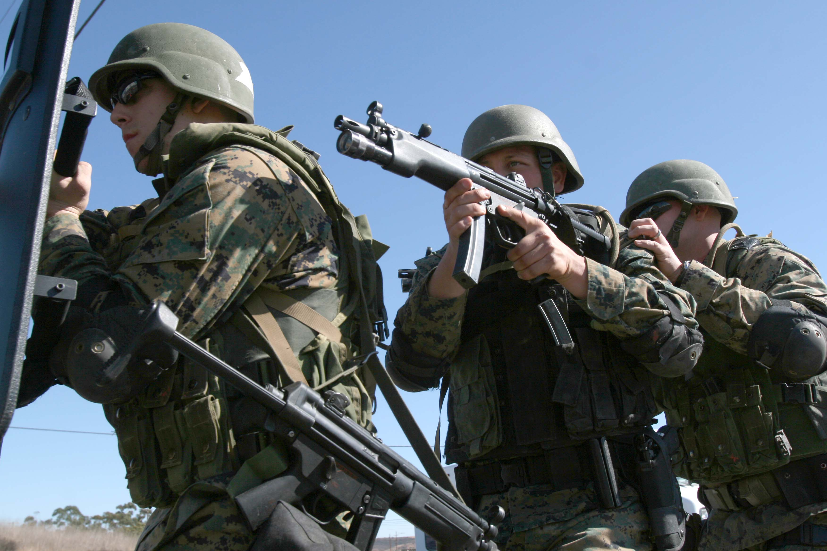 Cpls. Keane Wodele and Anthony Barnes, and Pfc. Steven Evans, all military policemen with Marine Corps Air Station Miramar’s Provost Marshal’s Office, practice carrying MP5 submachine guns in stack formation Nov. 17. Stack formations and weapons handling were large portions of the air station’s Special Reaction Team indoctrination, which was a week-long test for MPs looking to become SRT members.